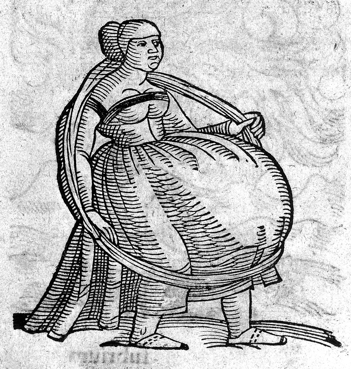 Franciscus Picus Mirandolae, quoted by pare, says that one Dorothea, n Italian, bore 20 children at 2 confinements, the first time bearing 9 and the second time 11. He gives a picture of the marvel of prolificity, in which her belly is represented as hanging down to her knees and supported by a girdle from the neck. (Gould and Pyle). Rare Books Keywords: Abnormalities